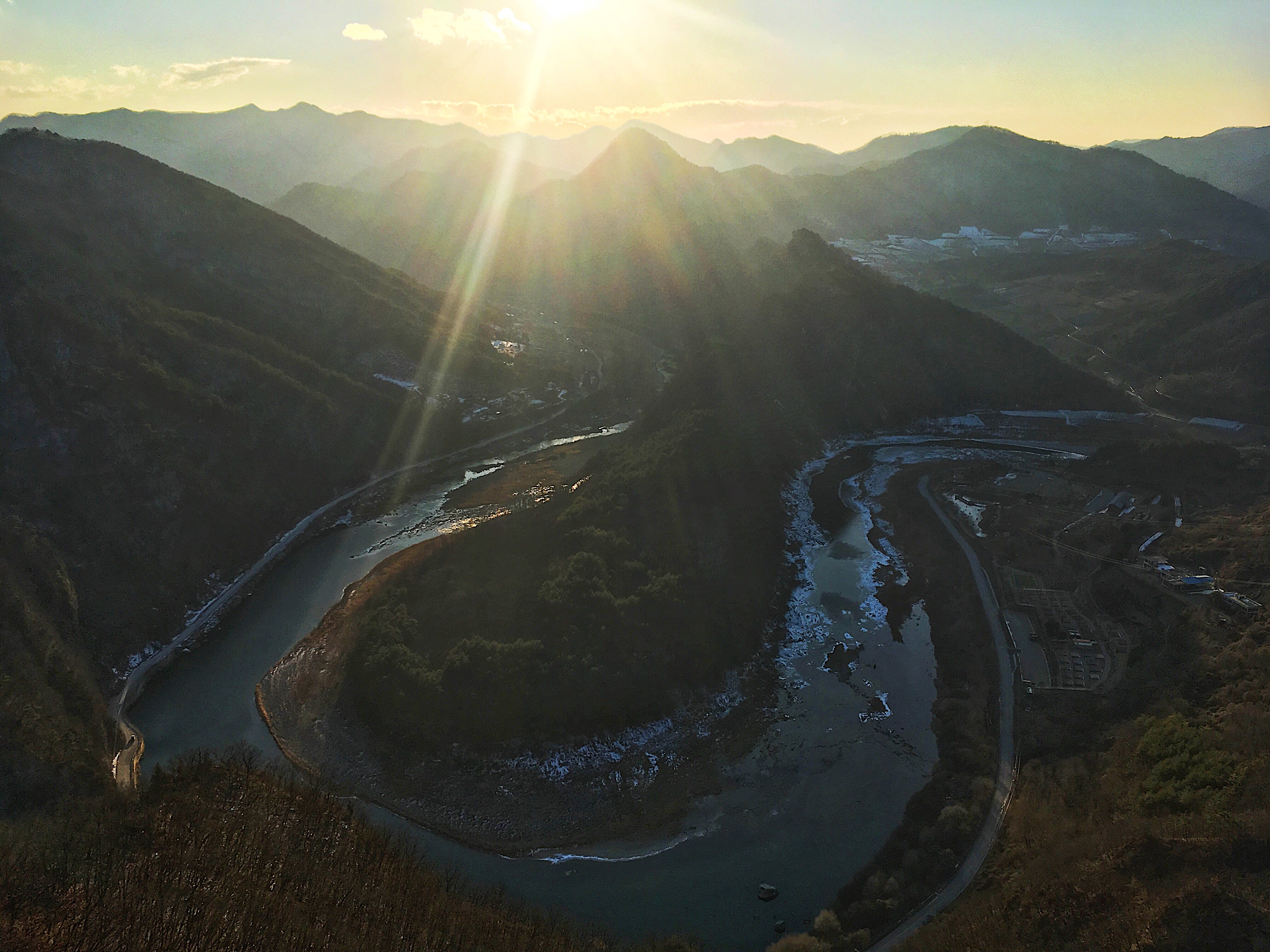 This picture is depicting Hanbando Seupji, which is promenous because of its topography. The island surrounded by water is shaped exactly the same as the Korean Peninsula. This is a very famous and one of the most beautiful tourist attractions in Gangwon Province.